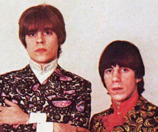 Mop-top hair